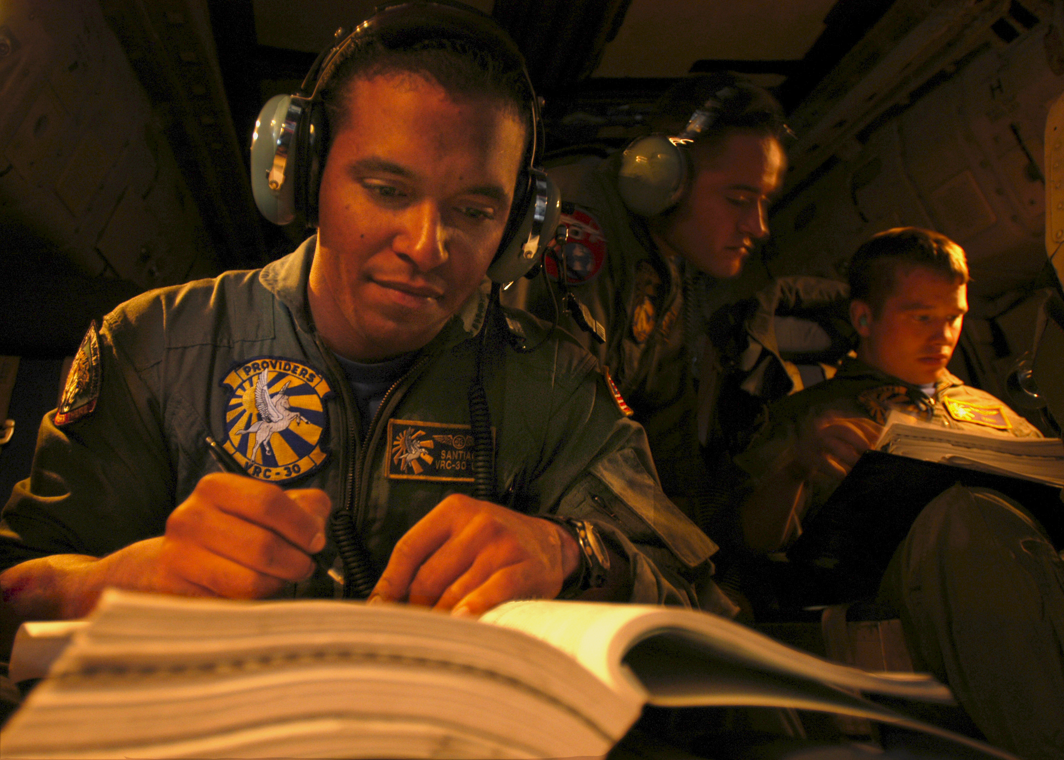 San Diego, Calif. (Oct. 9, 2003) -- During a routine flight from Naval Air Station North Island, Aviation Structural Mechanic Airman Ismael Santiago-Gutierrez, (left) Aviation Machinist's Mate Airman Christopher M. Fuentes (center) and Aviation Electronics Technician Airman Christopher R. Gregory (right), assigned to the "Providers" of Fleet Logistics Support Squadron Thirty (VRC-30) study for a NATOPS (Naval Air Training and Operating Procedures Standardization Program exam. U.S. Navy photo by Photographer’s Mate Airman Rebecca J. Moat. (RELEASED)